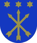 Coat of arms of the municipality Stockelsdorf in Schleswig-Holstein, Germany. municipalitie